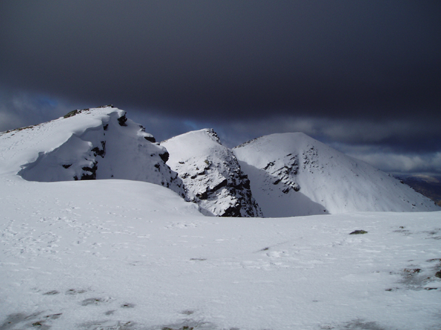 Summit Ridge of Ben Lomond. Looking North East along the summit ridge towards the summit of Ben Lomond showing the craggy North East face of the mountain.